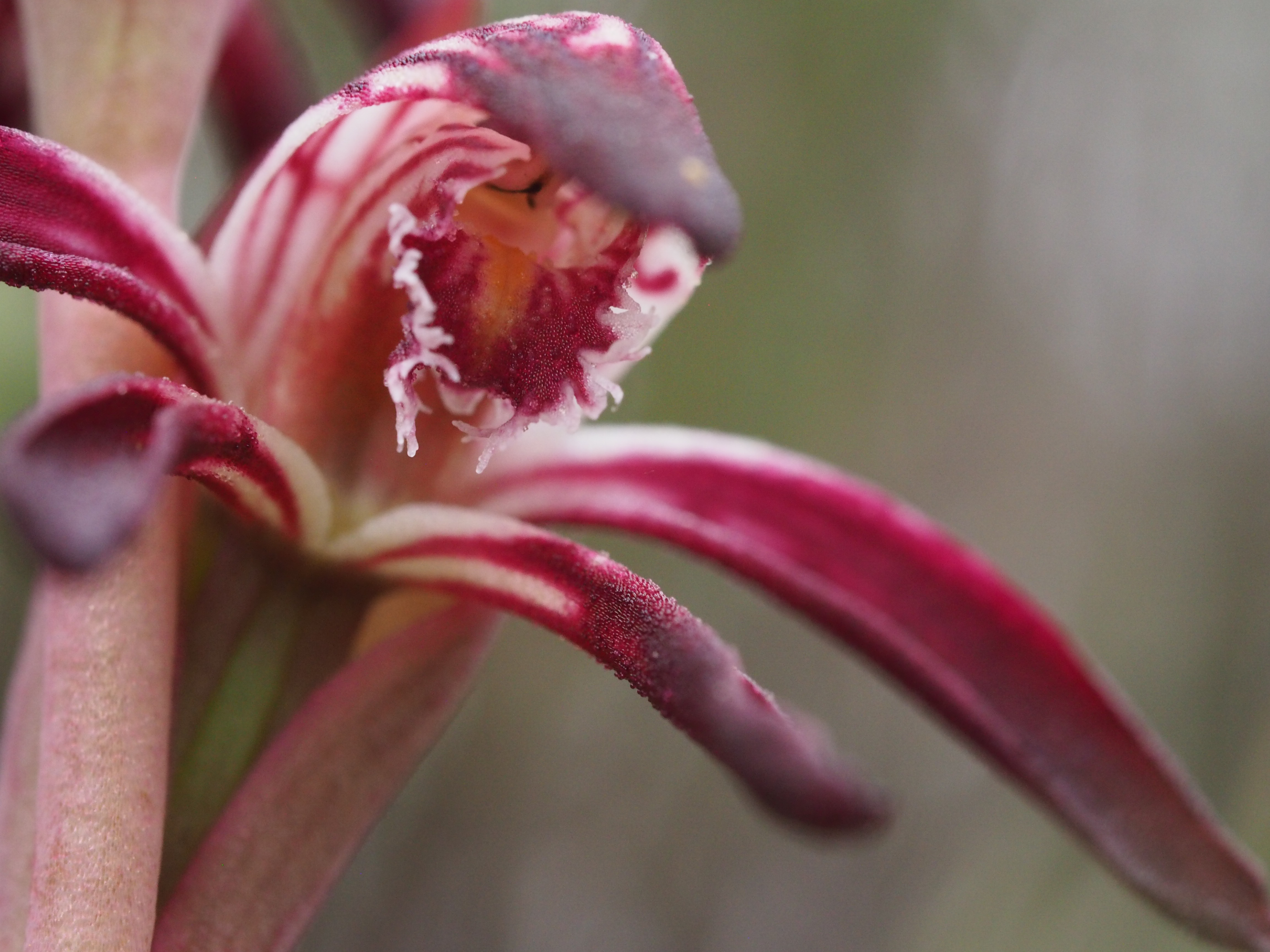 Pyrorchis nigricans growing in the Pallarup Conservation Reserve north of Ravensthorpe